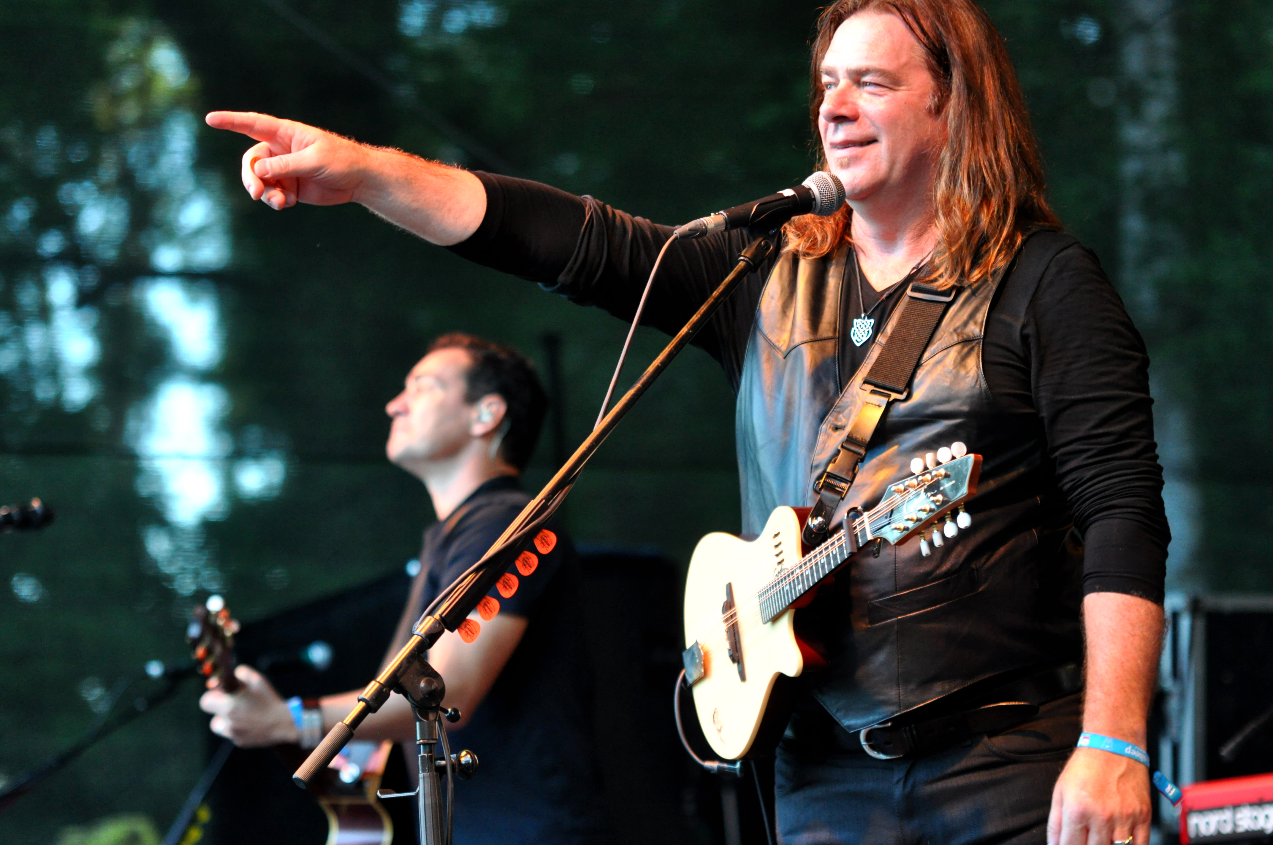 Alan Doyle and band (CAN) appearance at the 2017 blacksheep festival at Bonfeld castle, Bad Rappenau, Baden-Wuerttemberg, Germany Festivalsommer This photo was created with the support of donations to Wikimedia Deutschland in the context of the CPB project "Festival Summer".